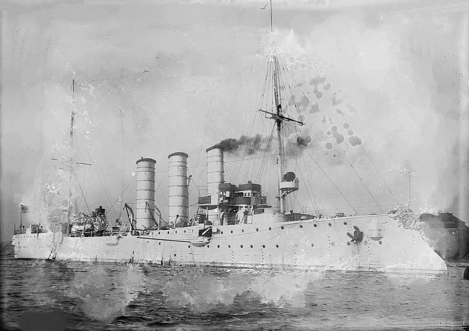 The German Imperial Navy Bremen-class cruiser SMS München before the First World War.